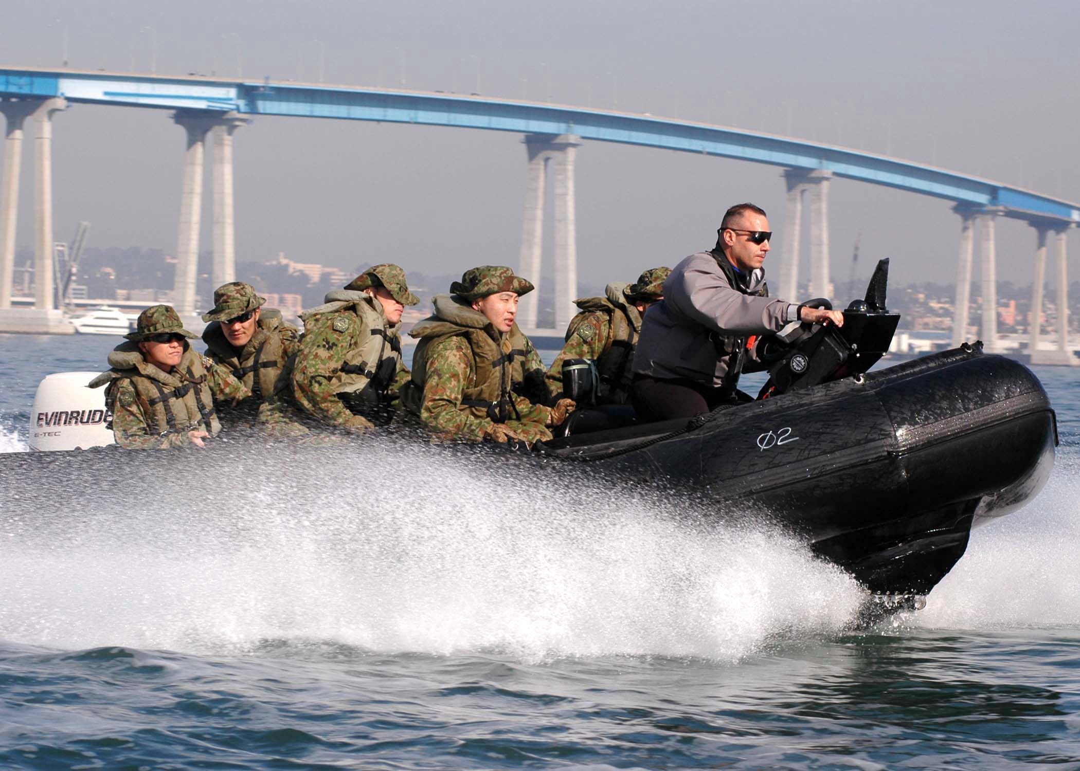 Coronado, Calif. (Jan 12, 2006) - Marine Staff Sgt. David Cleaves, an instructor with Expeditionary Warfare Training Group Pacific, drives a Combat Inflatable Craft, (CRIC), with soldiers from Japan Ground Self-Defense Force (JGSDF) during Exercise “Iron Fist.” The exercise is designed to help Japanese forces train for amphibious assault operations, water survival, and boat operations. U.S. Navy Photo by Photographer 2nd Class Erich J. Ryland (RELEASED)